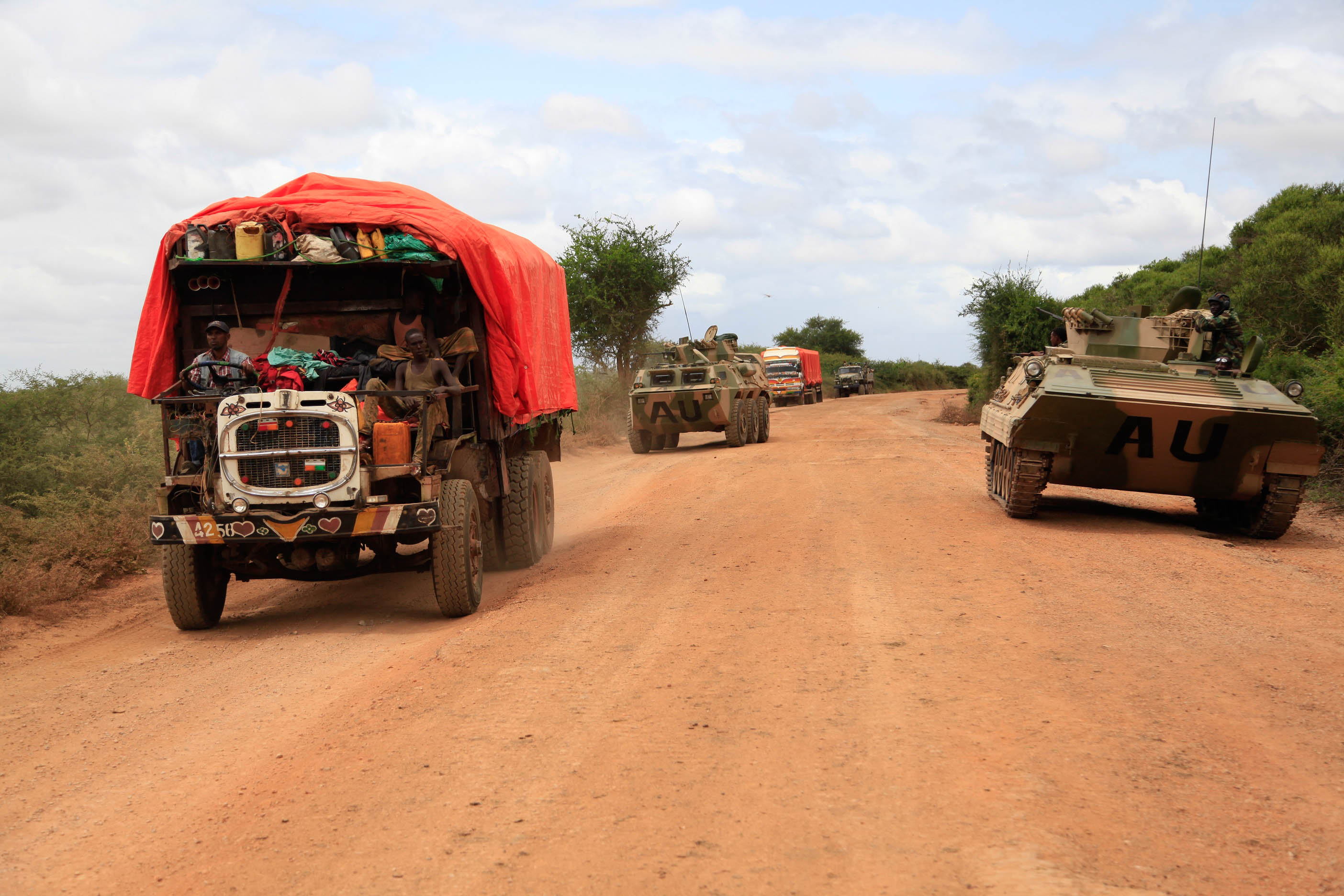 Ethiopian soldiers, belonging to the African Union Mission in Somalia, assist in the movement of supplies in the Bay region of Somalia. AMISOM Photo / Sabirr Olad